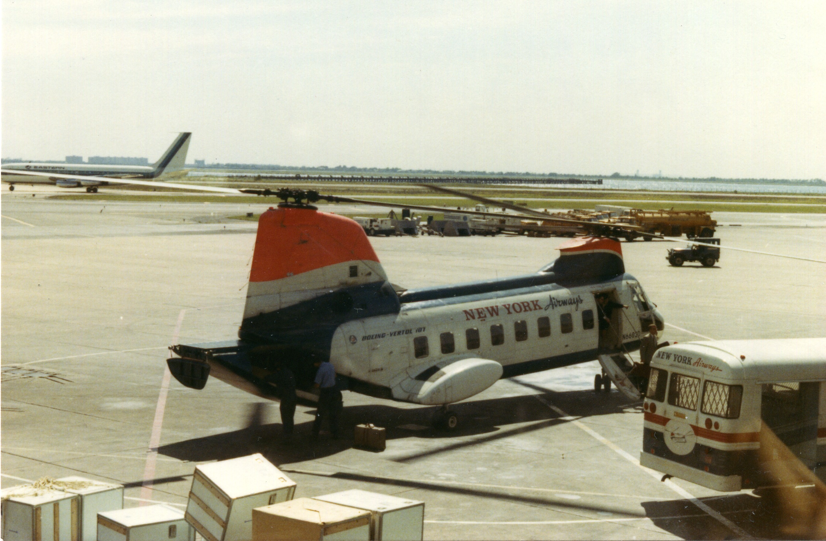 New York Airways helicopter at JFK airport after flying from the top of the Pan-Am building in downtown New York CityPhoto taken September 1, 1967. The helicopter is a Boeing-Vertol 107-II built in 1964, registration number N6682D